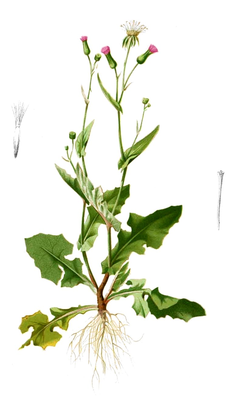 Plate from book